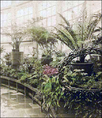 Photo taken in the Palm House.